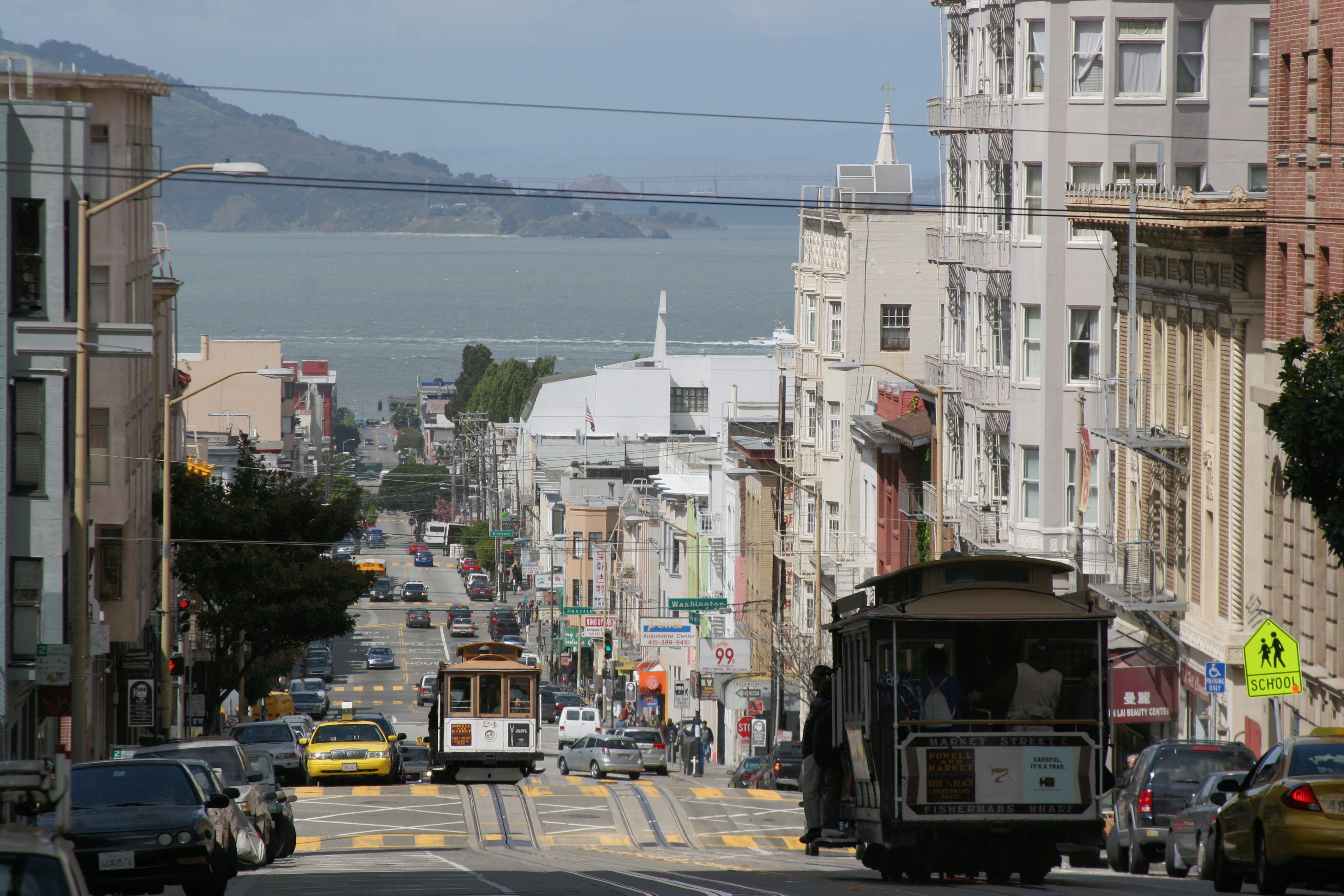 View of Powell Street in San Francisco, from Nob Hill.